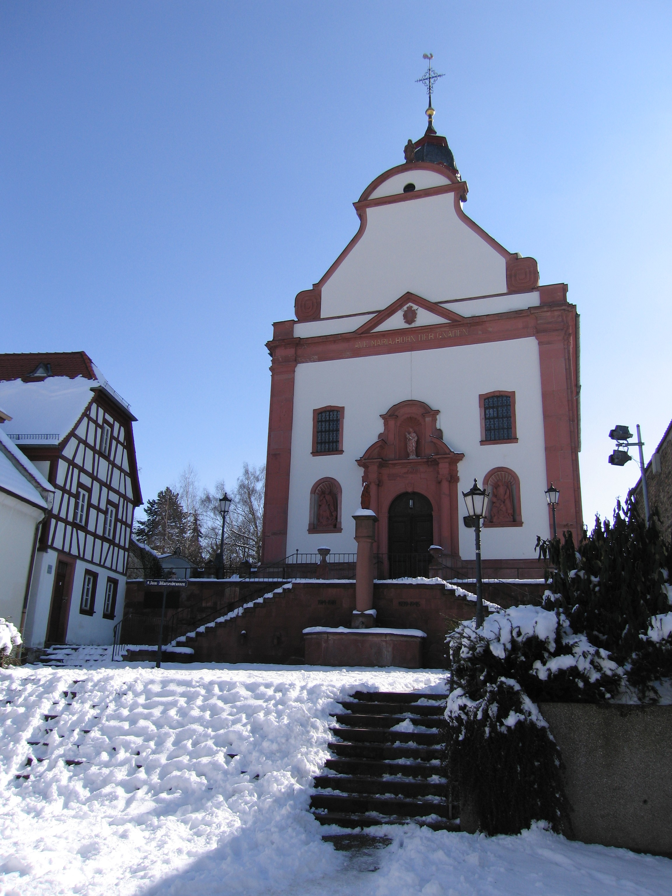 Catholic church St. Stephan, Mainz-Marienborn, Germany Picture taken by Christian Koehn (fragwürdig), March 5, 2006